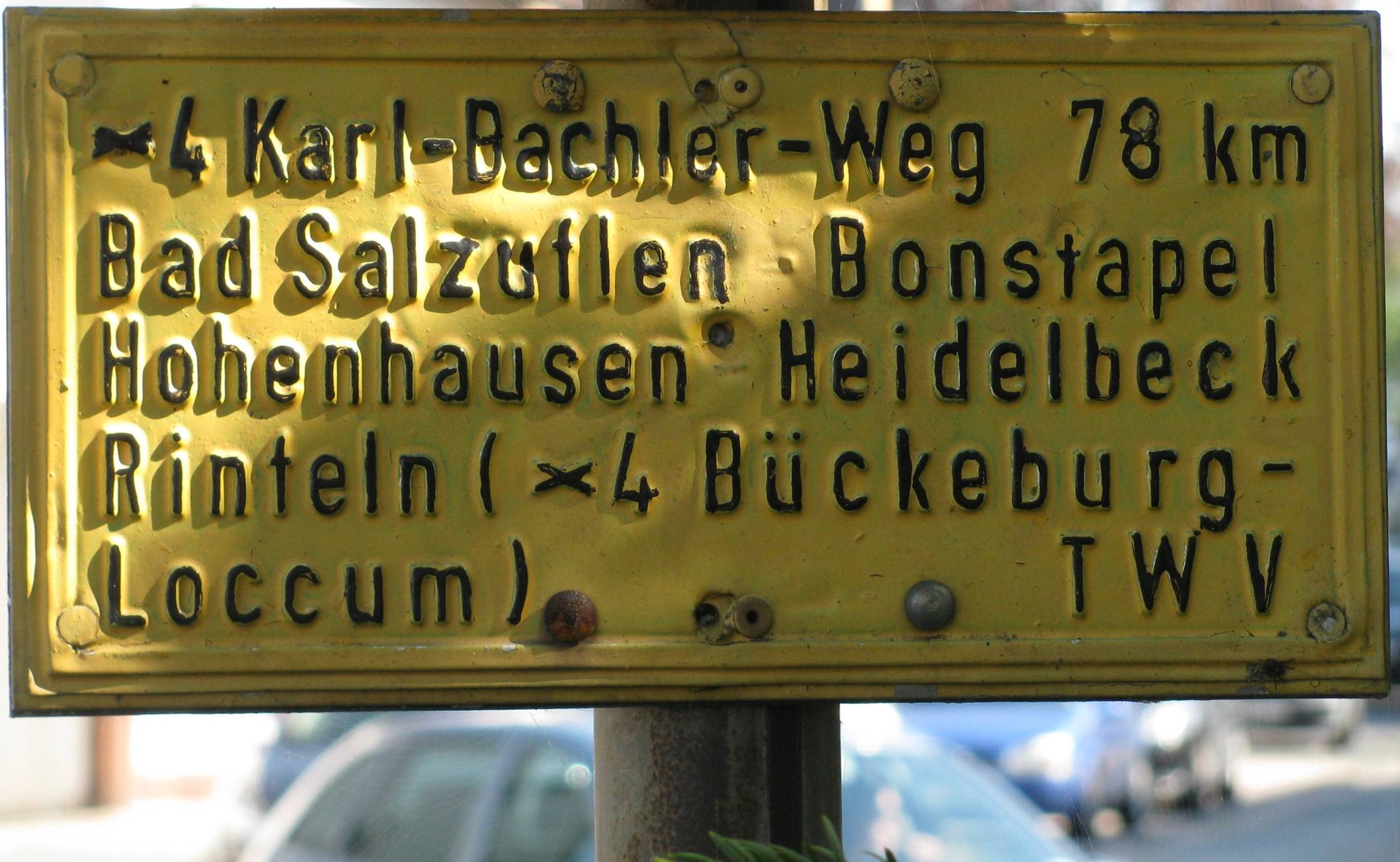 Germany - North Rhine-Westphalia - district Lippe - Bad Salzuflen: 'Karl-Bachler-Weg', Hiking sign